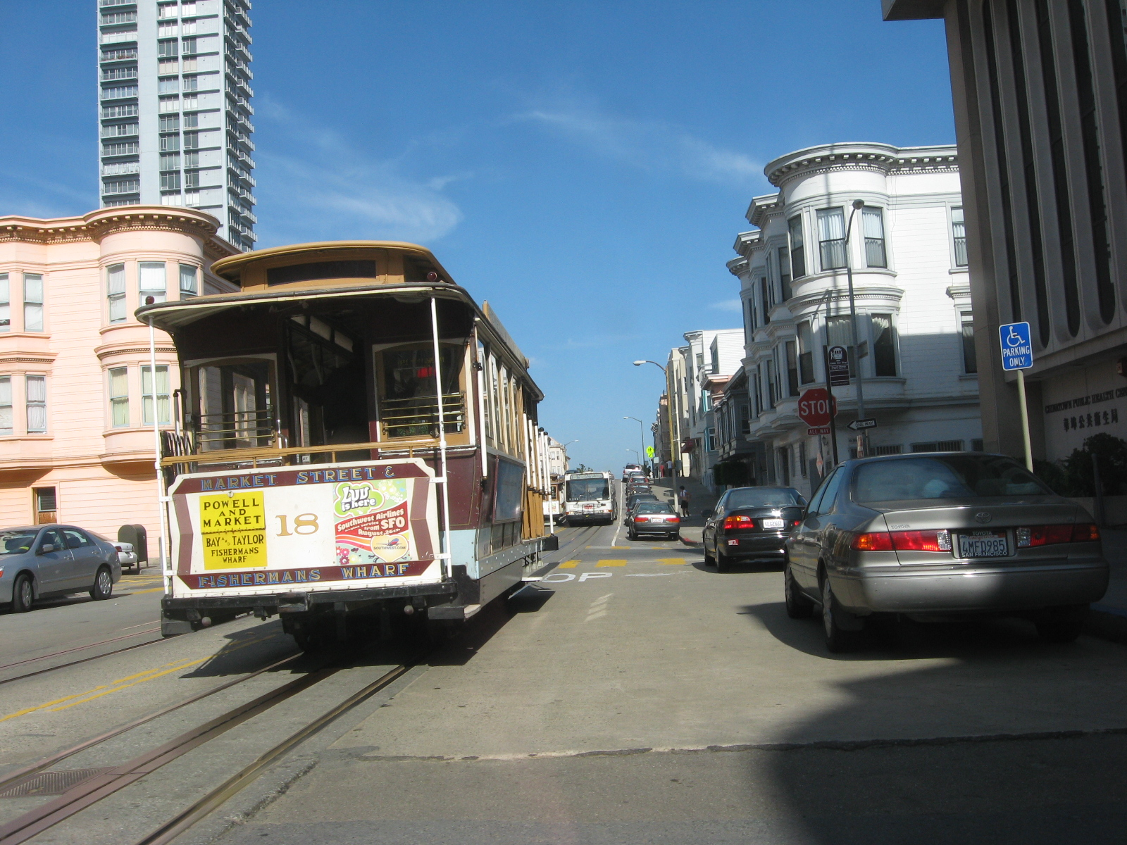 A broken down cable car. To the front is a NABI bus substituting for the cable cars.